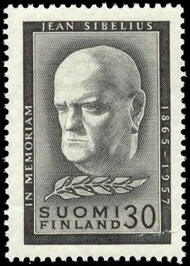 Postage stamp depicting Finnish composer Jean Sibelius